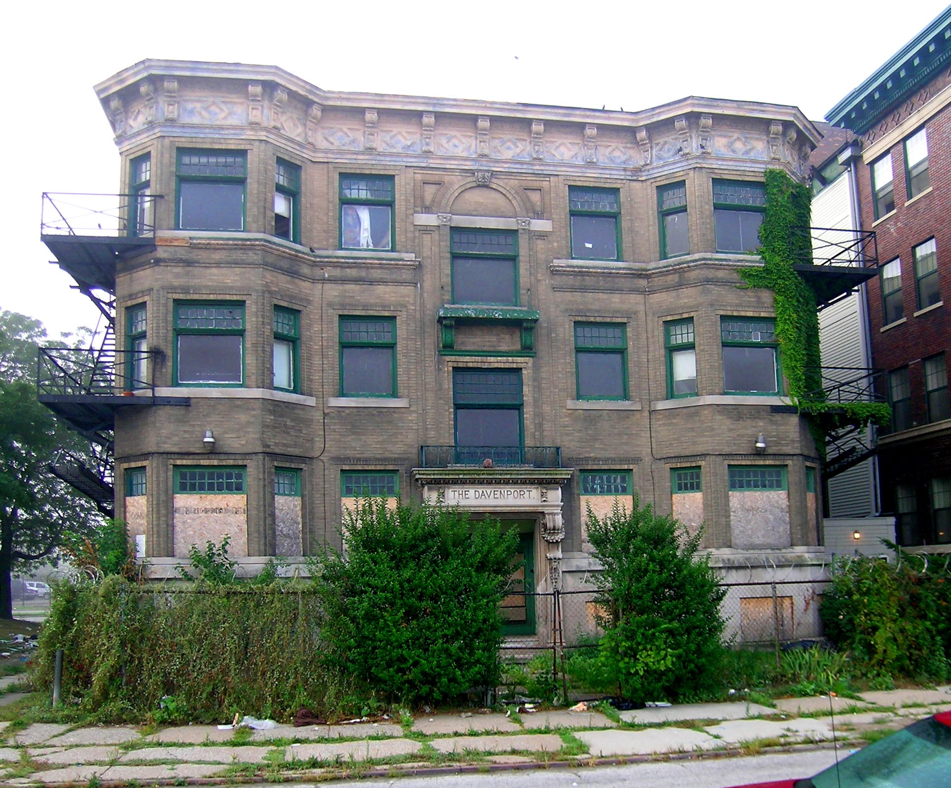 Davenport Apartments on Cass in Detroit Michigan